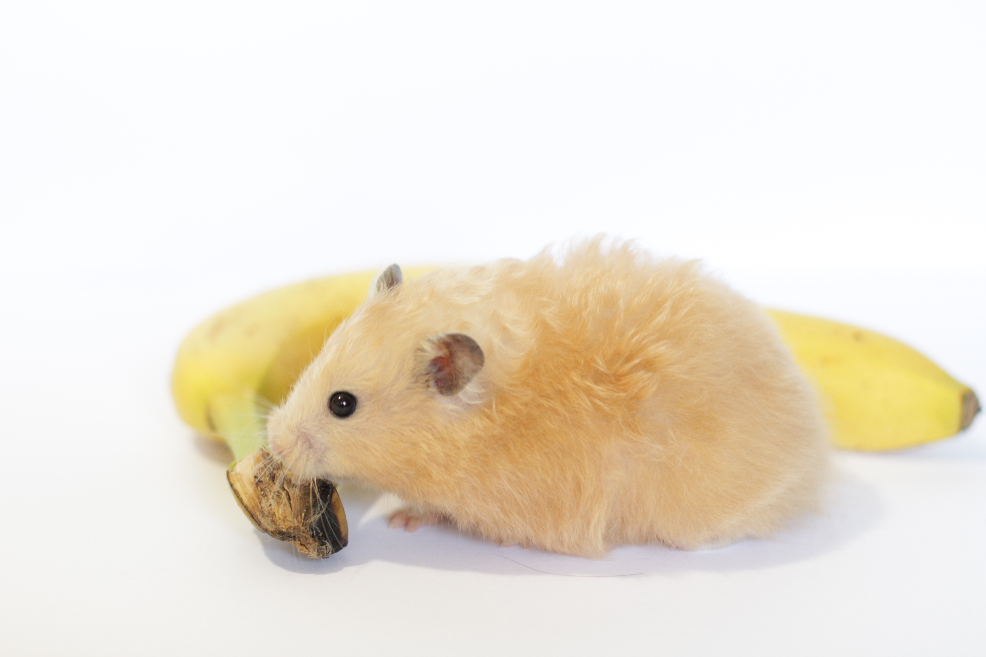 Marin has a snack. Marin is a cream-colored long-hair pet Syrian hamster. This image is intended for slideshow presentations which use pictures of animals as breaks among technical content. For that reason, the hamster and snack are in a light box with a white background. This image could be its own slide or with unrelated technical text beside it. This image was commissioned from user Ghostmomo on fiverr. Copyright transfer to bluerasberry was part of that exchange.